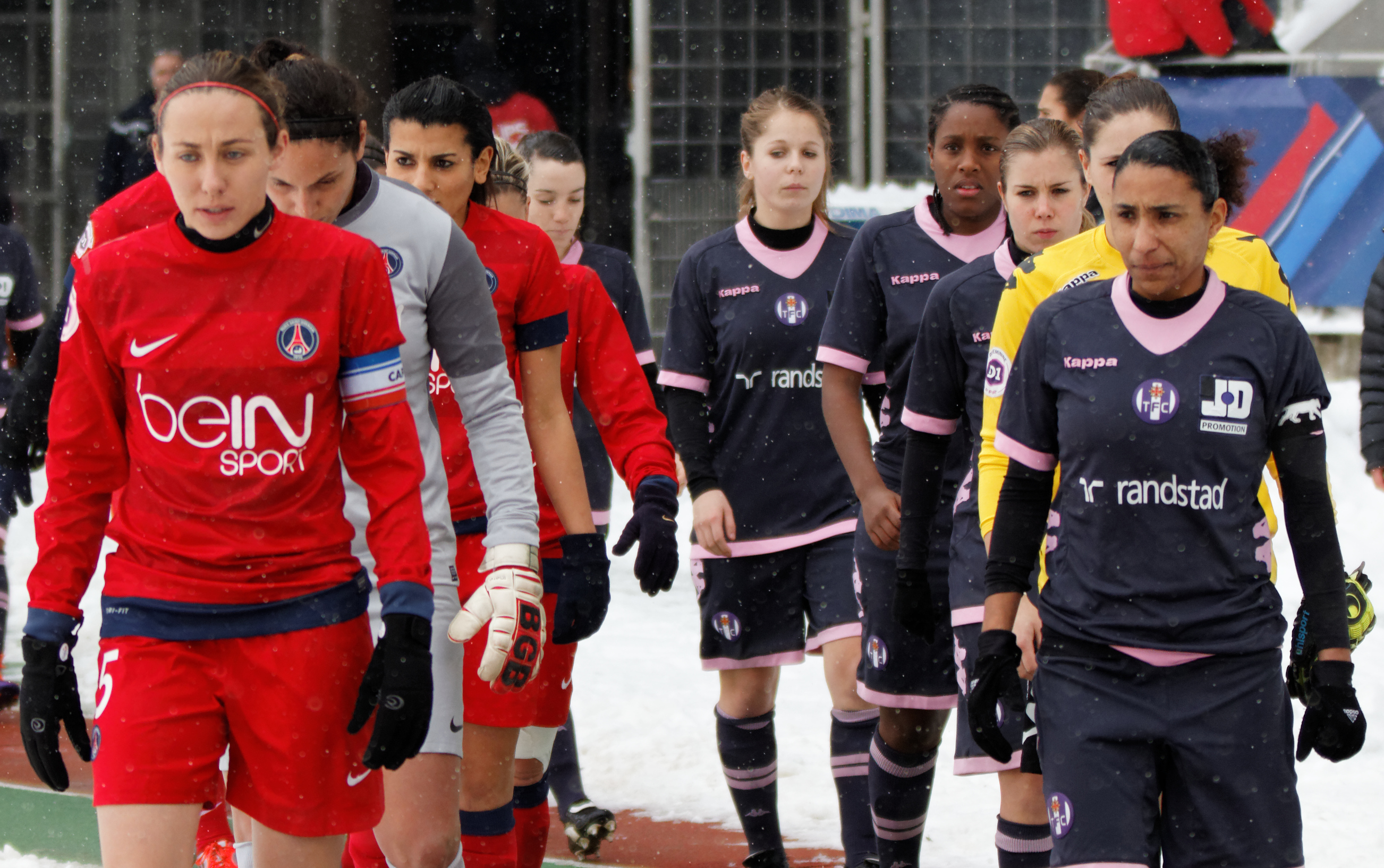 PSG-Toulouse, January 20th, 2013.